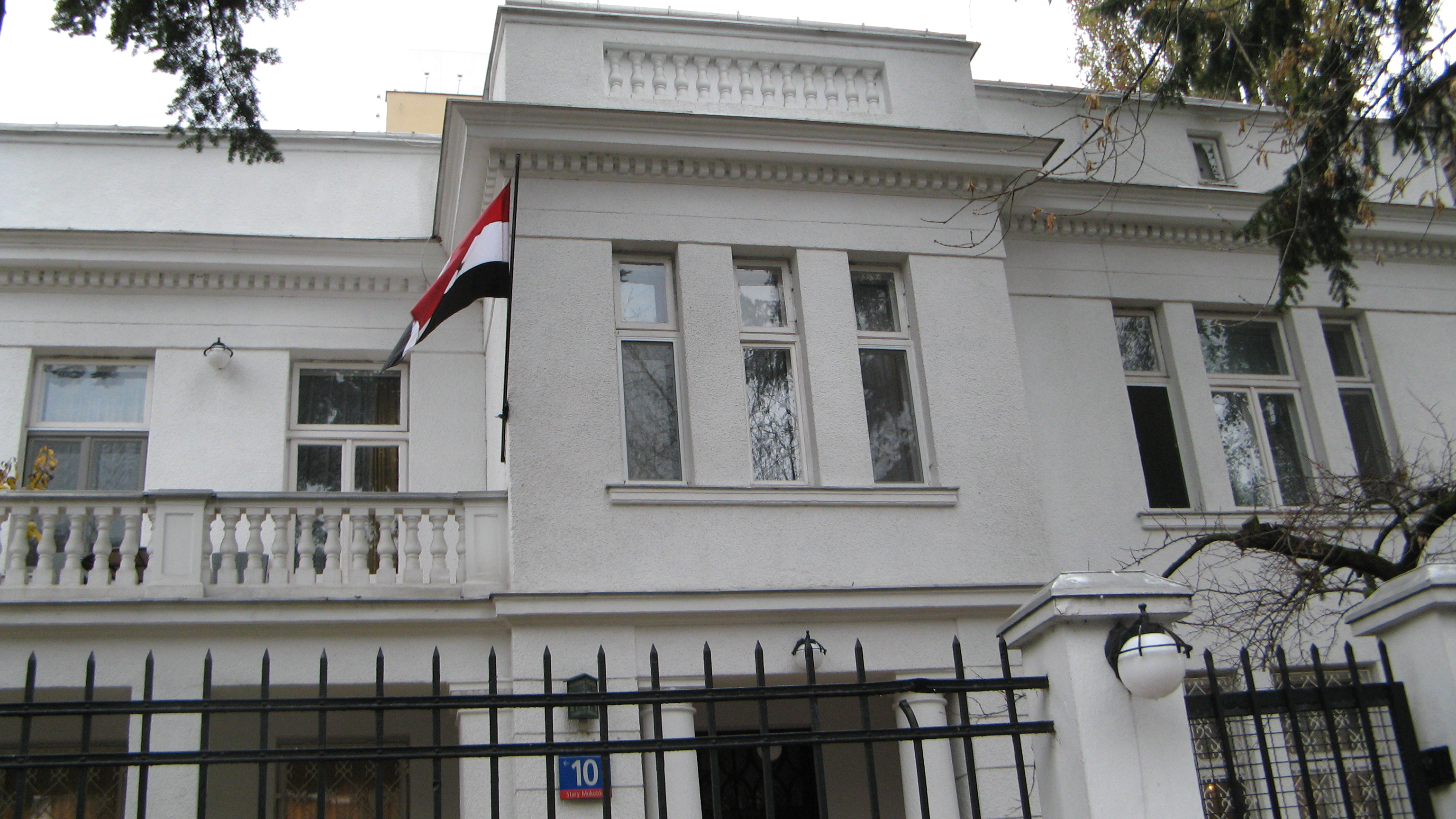 The embassy of Syrian Arab Republic, Warsaw, Poland